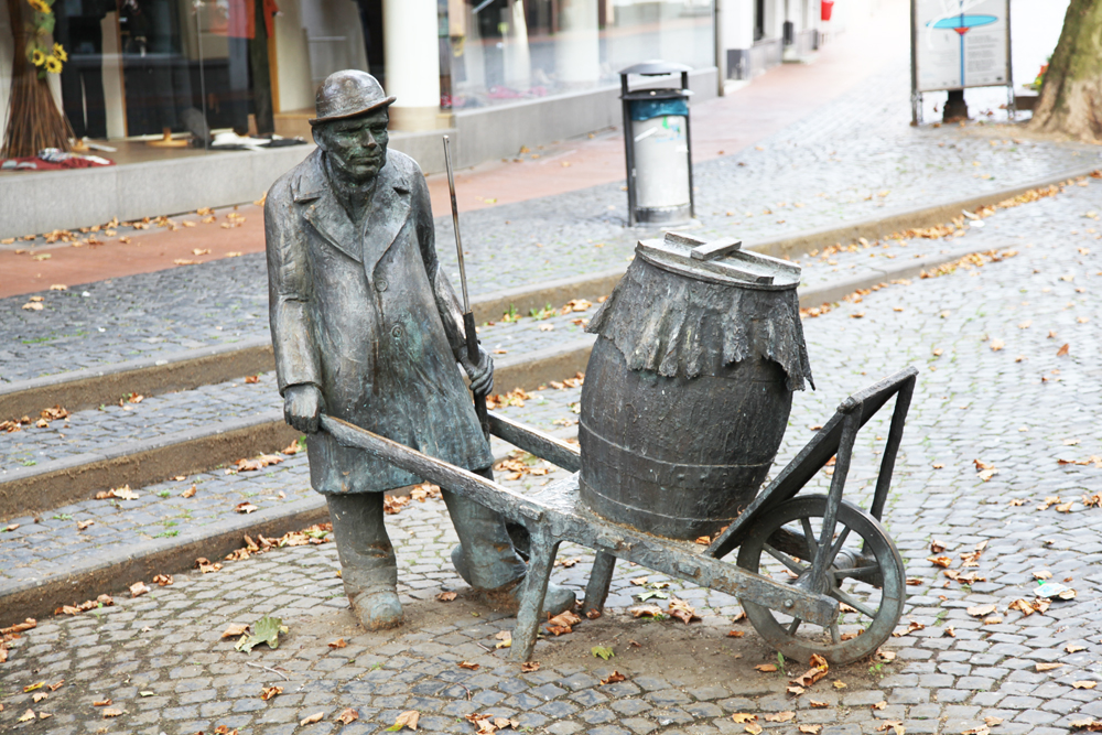 Lifesize statue of Tien Anton, a man emtying slurry pits before 1890.